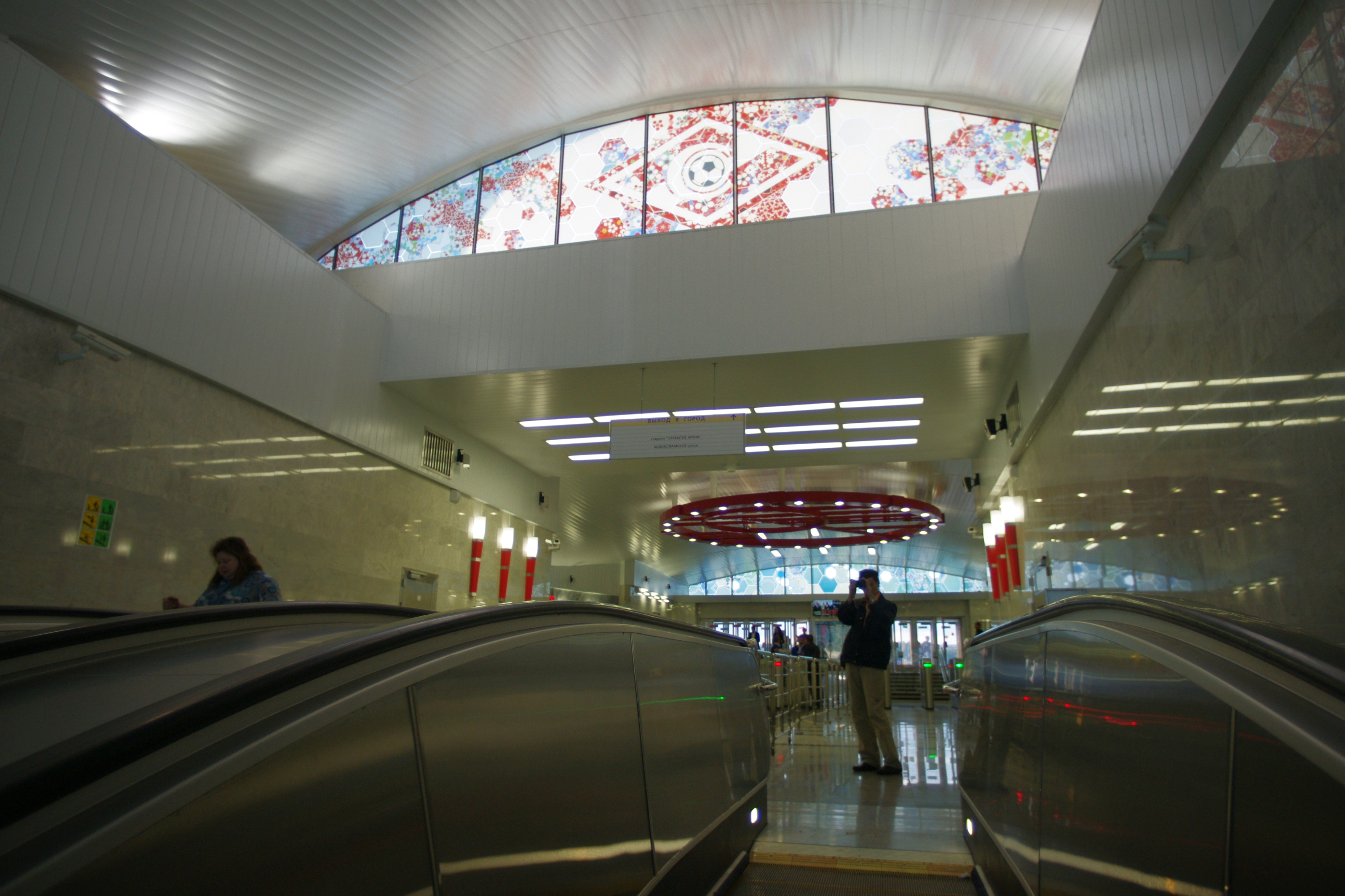 Station Spartak in frist day of work - 27.08.2014. Opened on exist TKL line. It was constructed in 1975 under Tushino airfield. Opened with new stadium "Otkritie Arena"